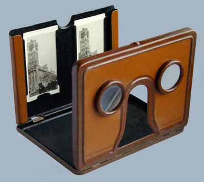 Early 1930's Toy Stereoscope